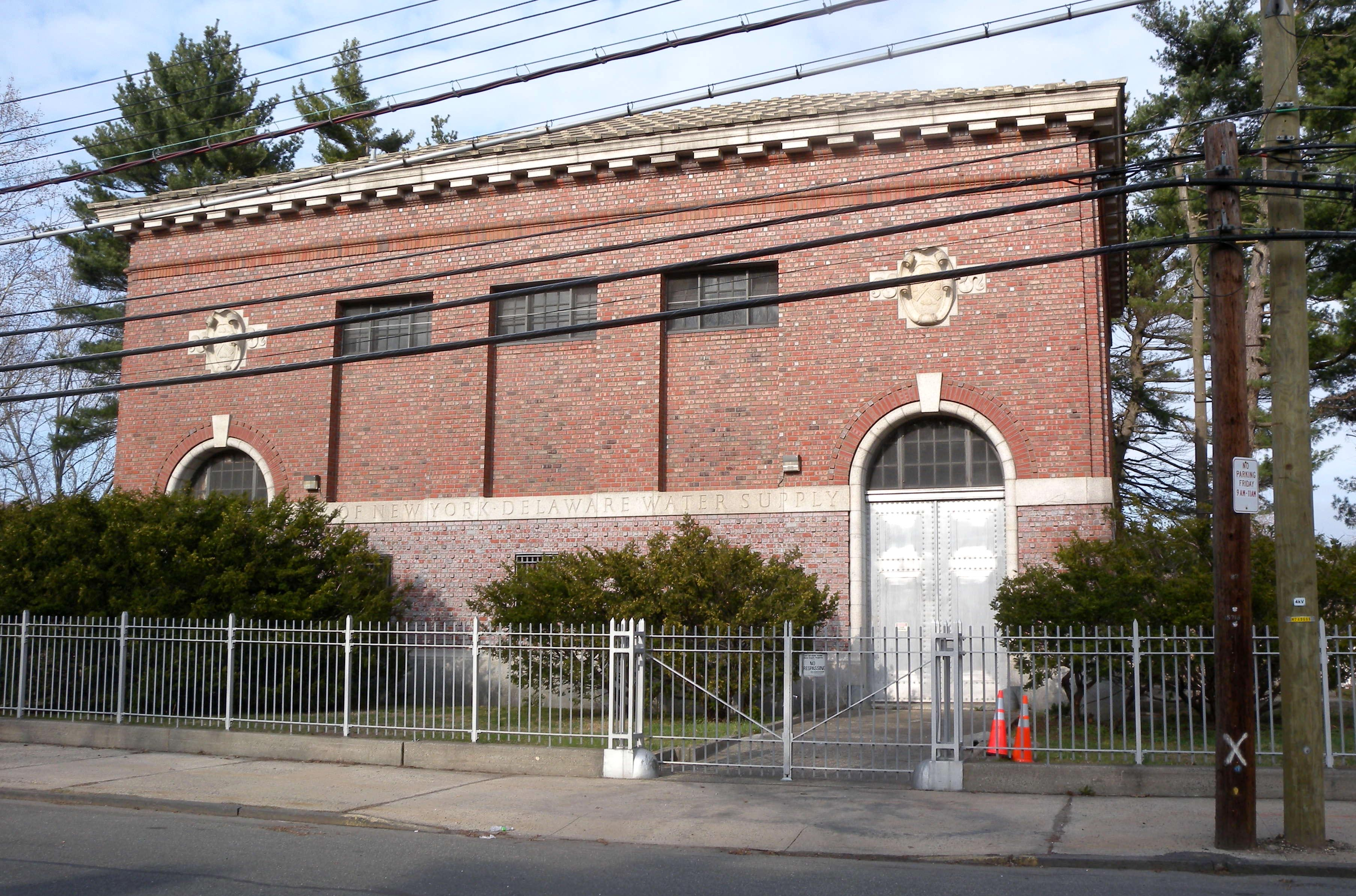 Looking northeast across Palmer Road at building of Delaware Aqueduct on a cloudy afternoon